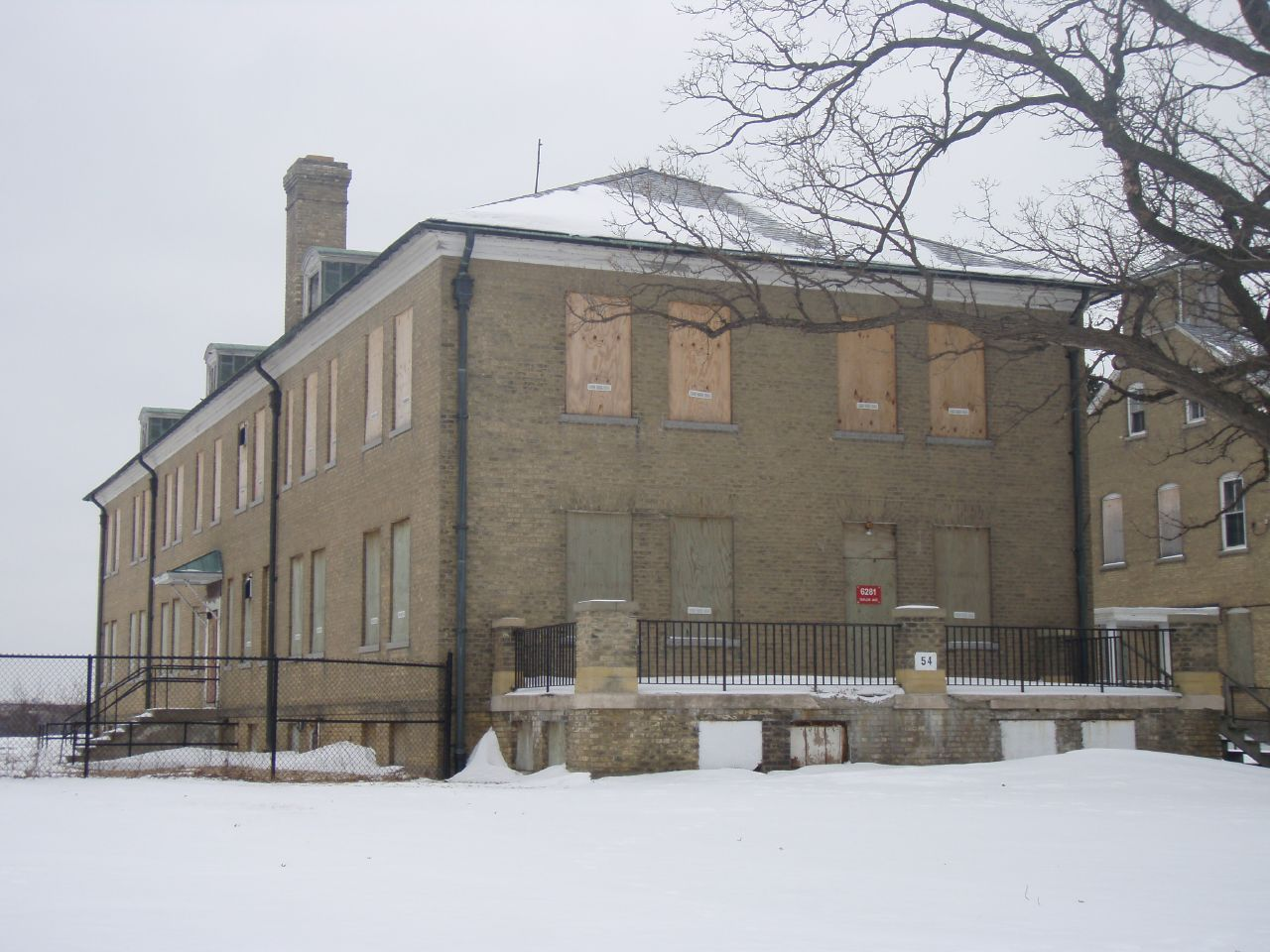 Buildings at Fort Snelling, Minnesota